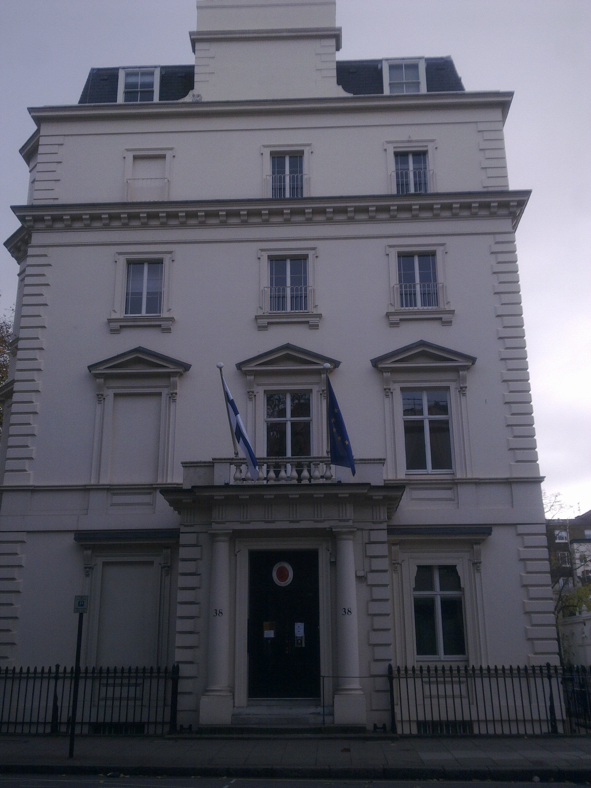 Embassy of Finland in London 1